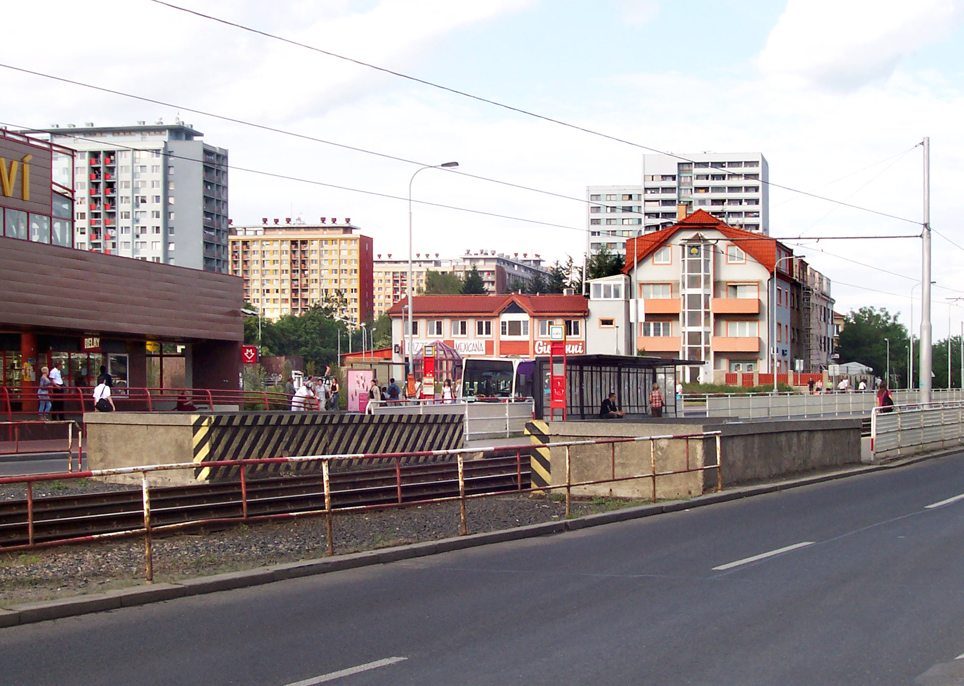 Tram and metro stop Ládví, Prague